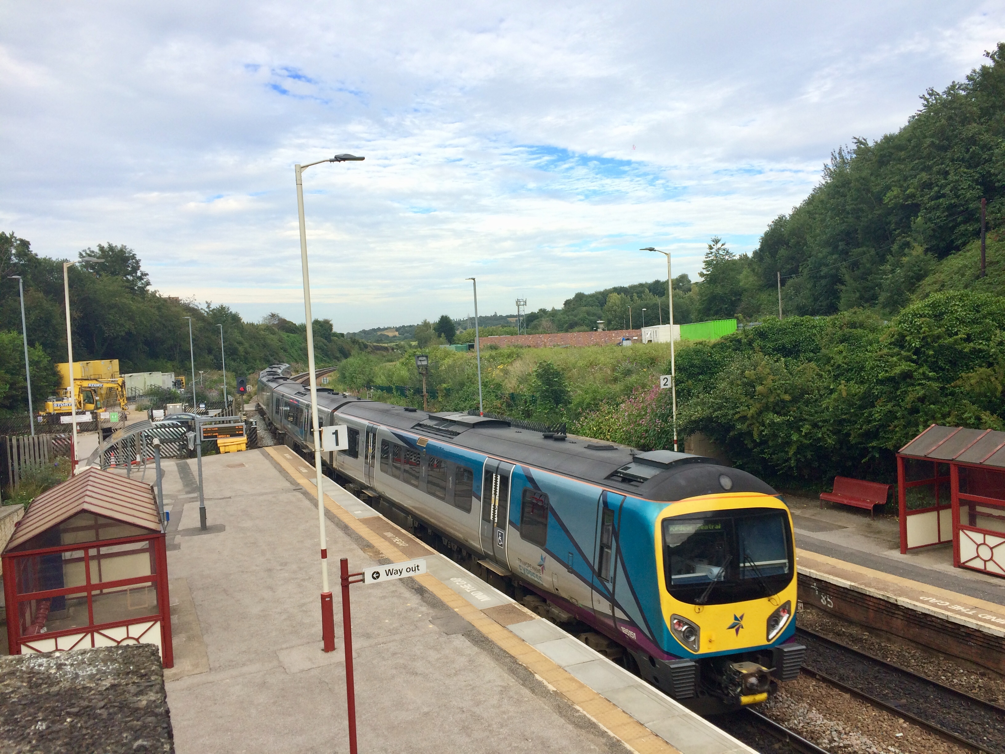 TPE 185151 at Morley, July 2020